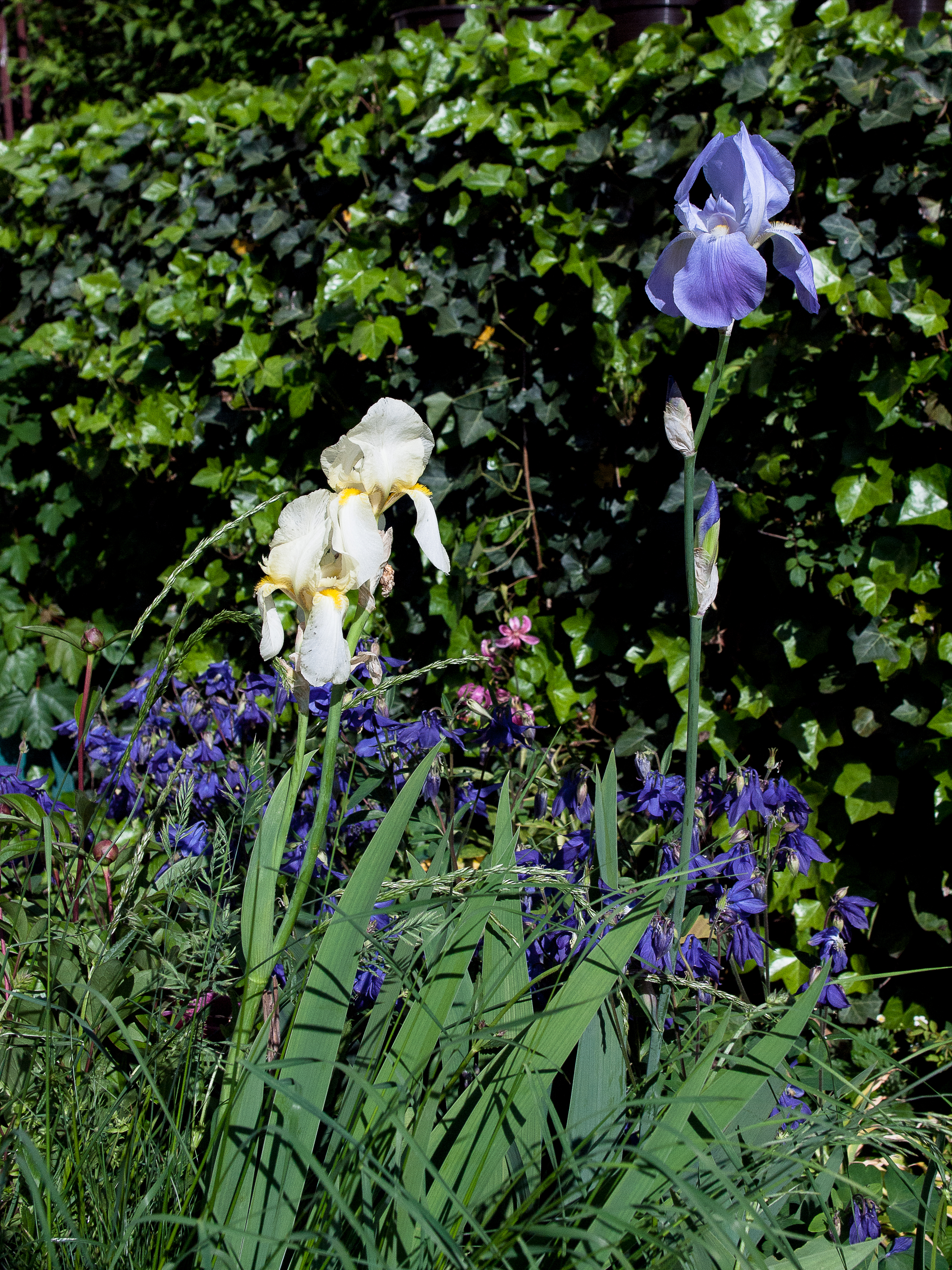 Iris orjenii Bräuchler & Cikovac leg Cikovac Bijela gora 2015 Iris pseudopallida Trinajstic leg Cikovac 2008 Katunska nahija AMERA